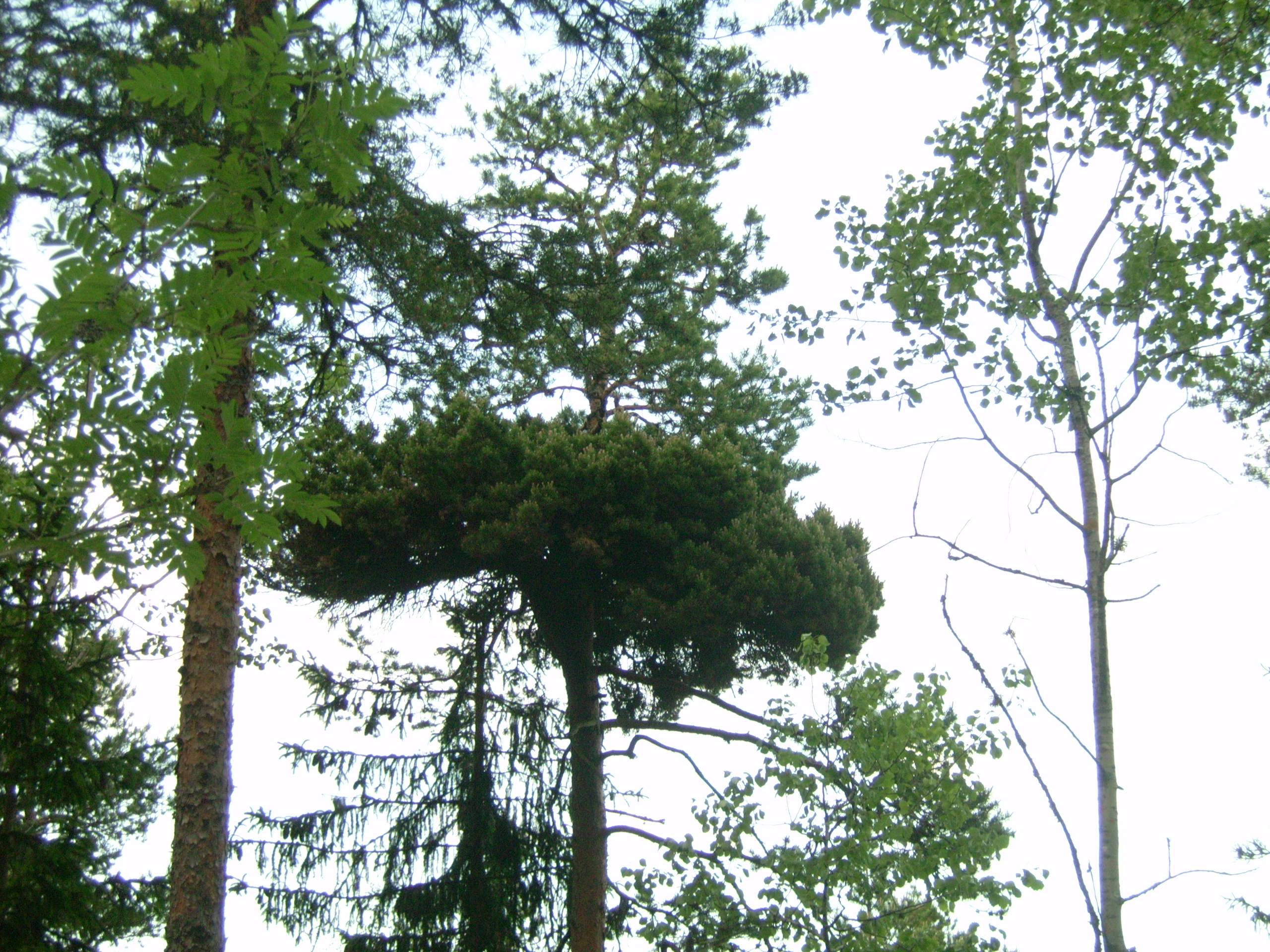 Witch's broom on a Pine in Gran, Norway